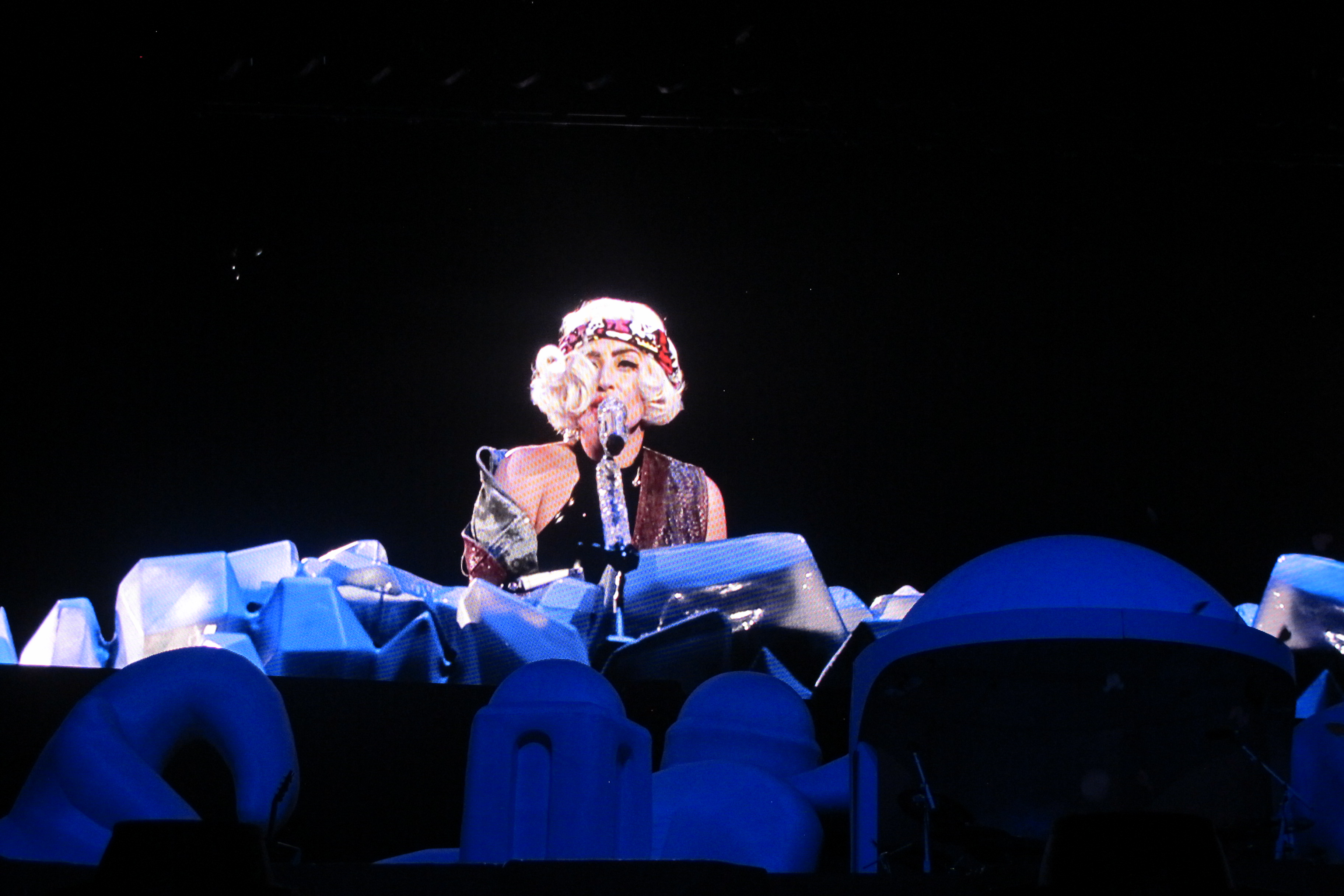 IMG_8282 Lady Gaga performing at ArtRave: The Artpop Ball of San Diego